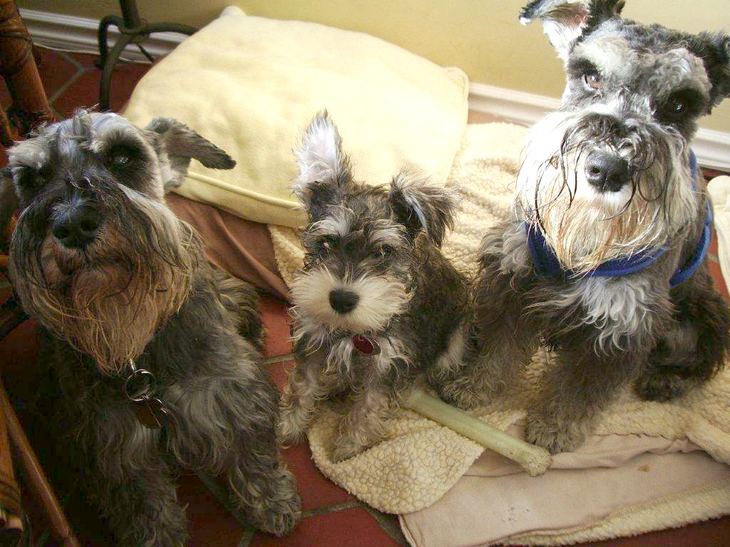 Cicero Schnauzer, Tullia-Zoe Schnauzer and Cato the Younger Schnauzer